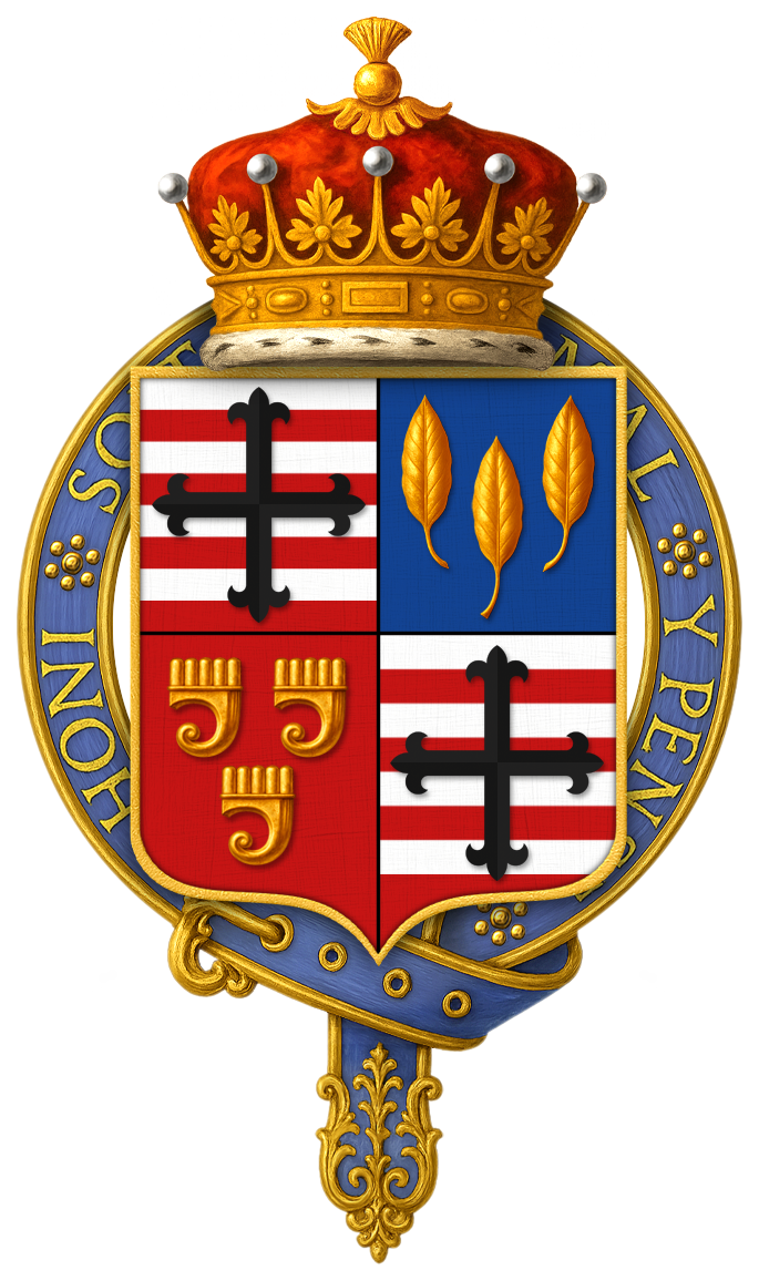 Coat of Arms of William Leveson-Gower, 4th Earl Granville, KG, as displayed on his Order of the Garter stall plate in St. George's Chapel, Windsor Castle.